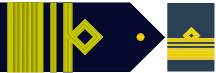 Rank insignia of a major of the Argentine Air Force.